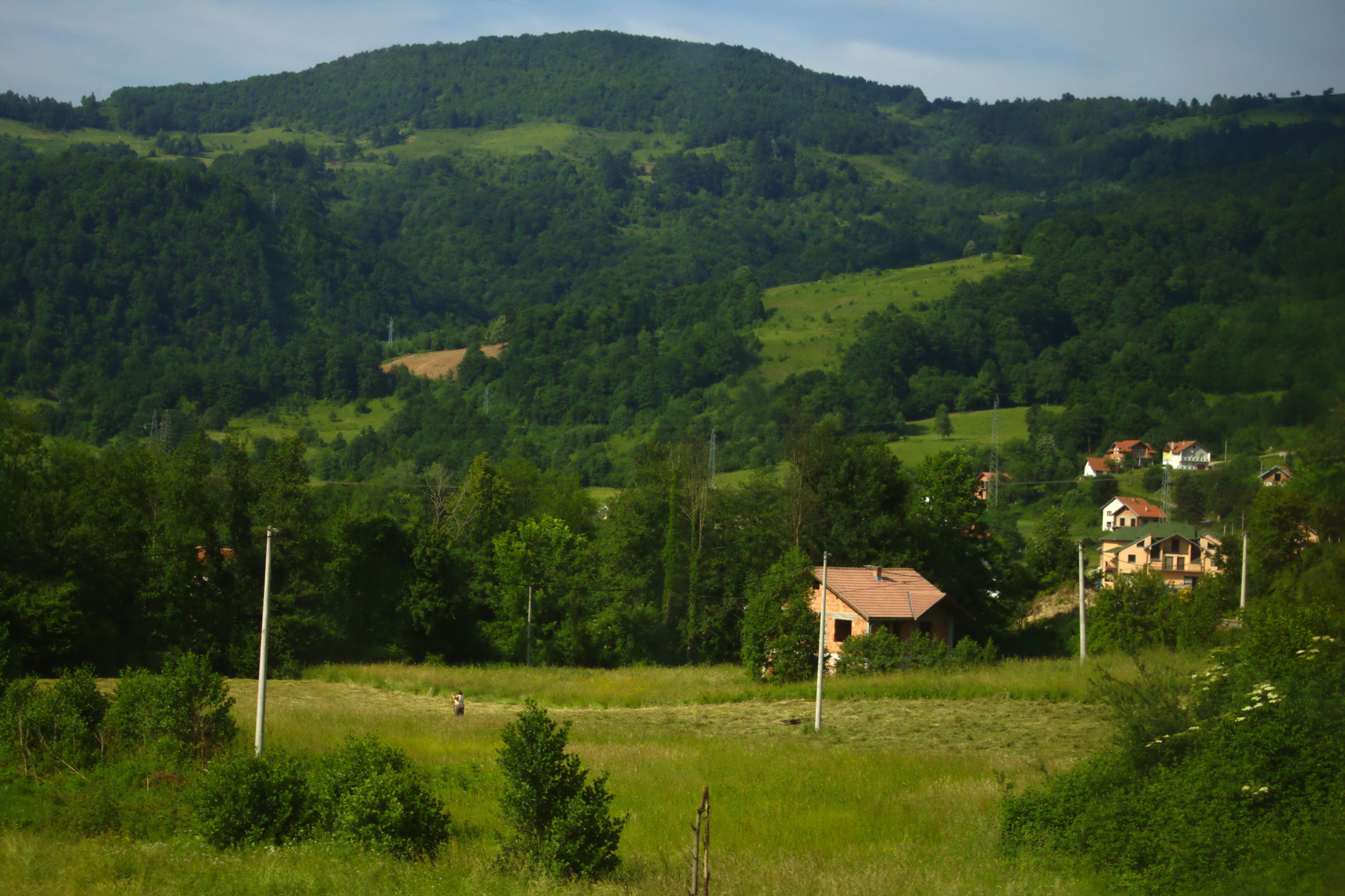 Countryside near the town of Nova Kasaba in Republika srpska, BiH